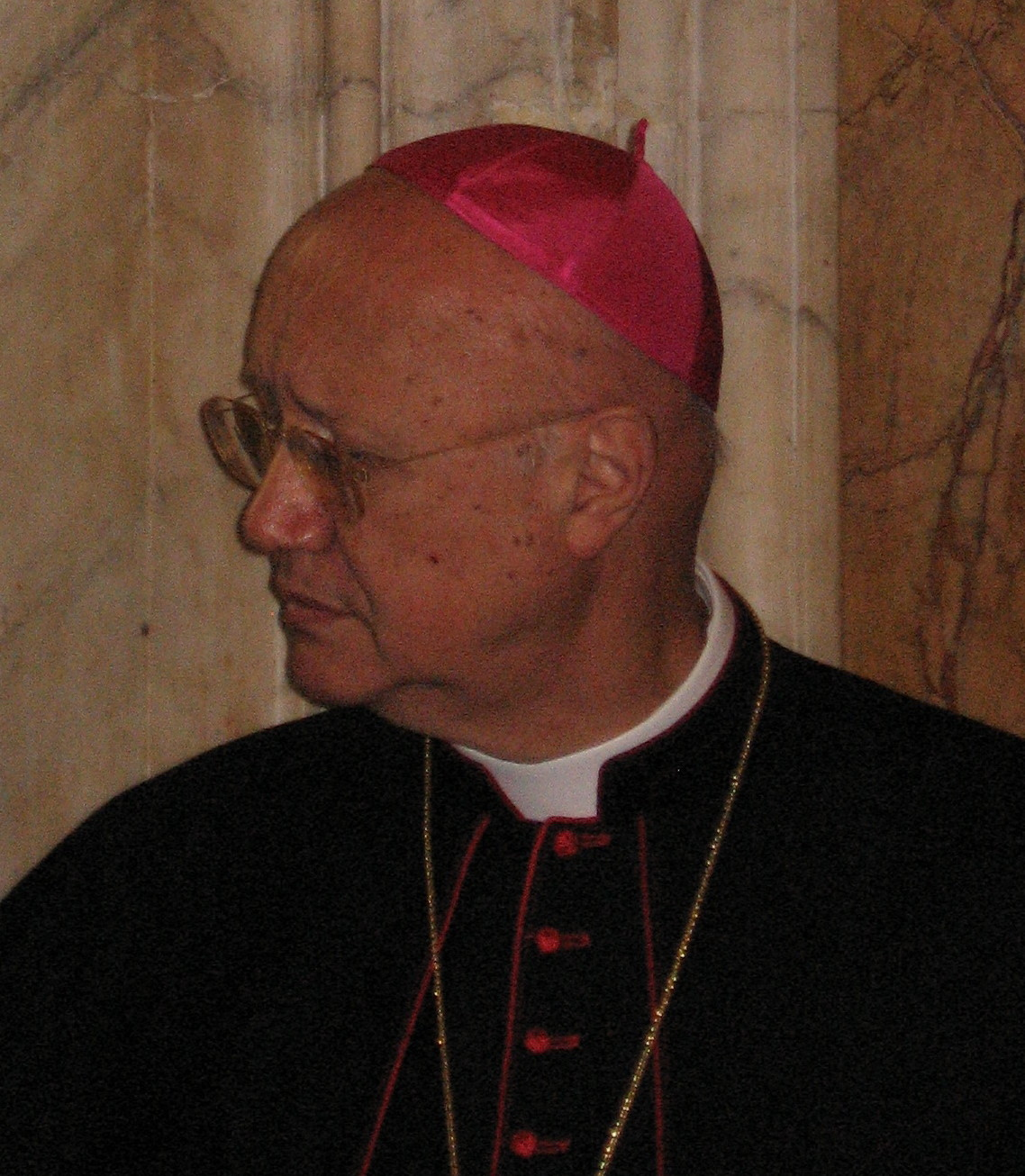 Archbishop Claudio Maria Celli, President of the Pontifical Council for Social Communications in the Roman Curia